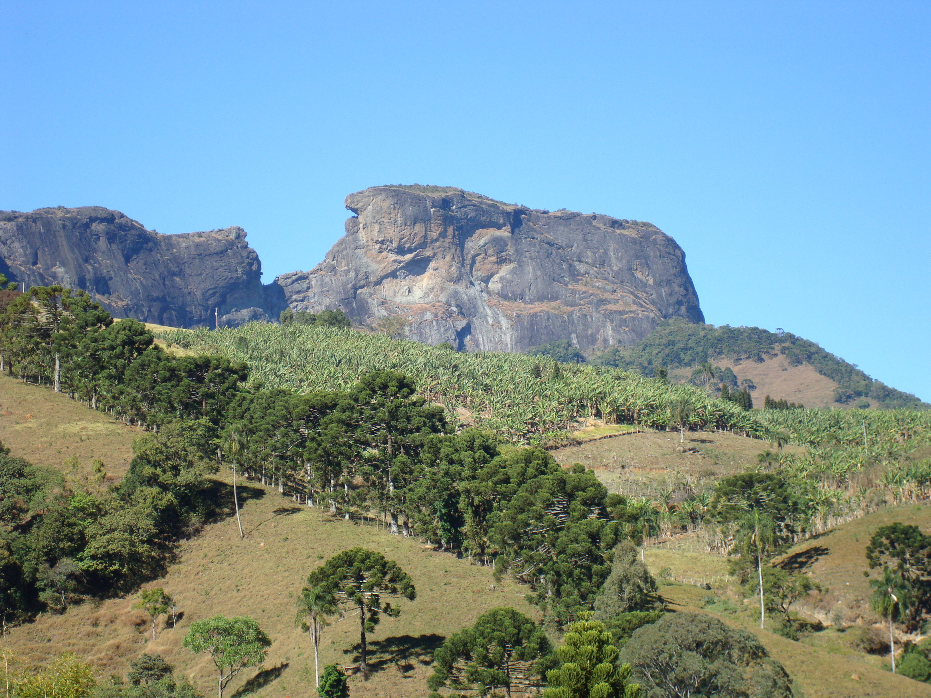 Bau Rock